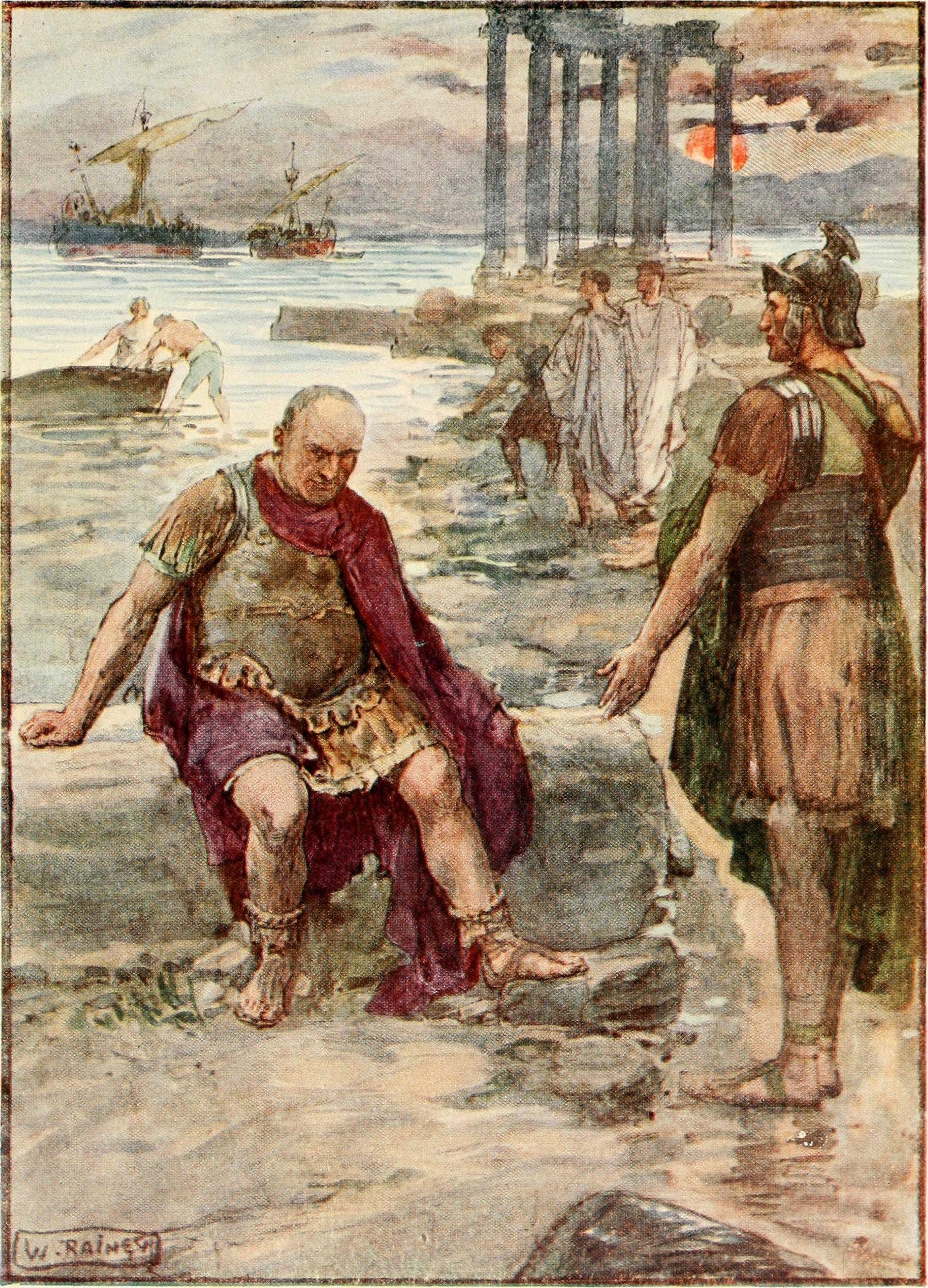 Gaius Marius sitting in exile among the ruins of Carthage. Image from page 368 of "The story of Rome, from the earliest times to the death of Augustus, told to boys and girls" (1912)